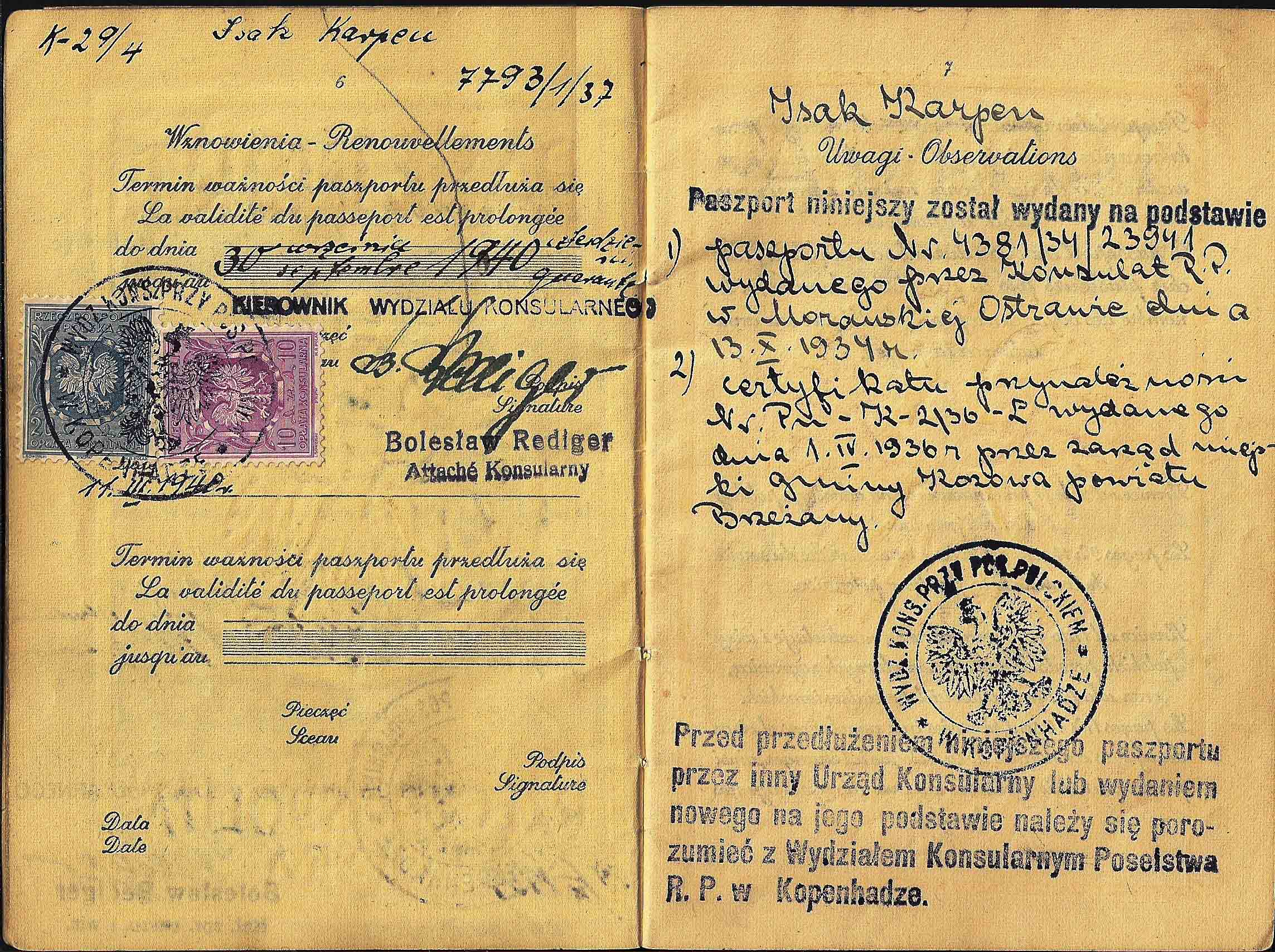 Polish passport used in Denmark up to March 1940. The Jewish holder escaped to Sweden during the war.